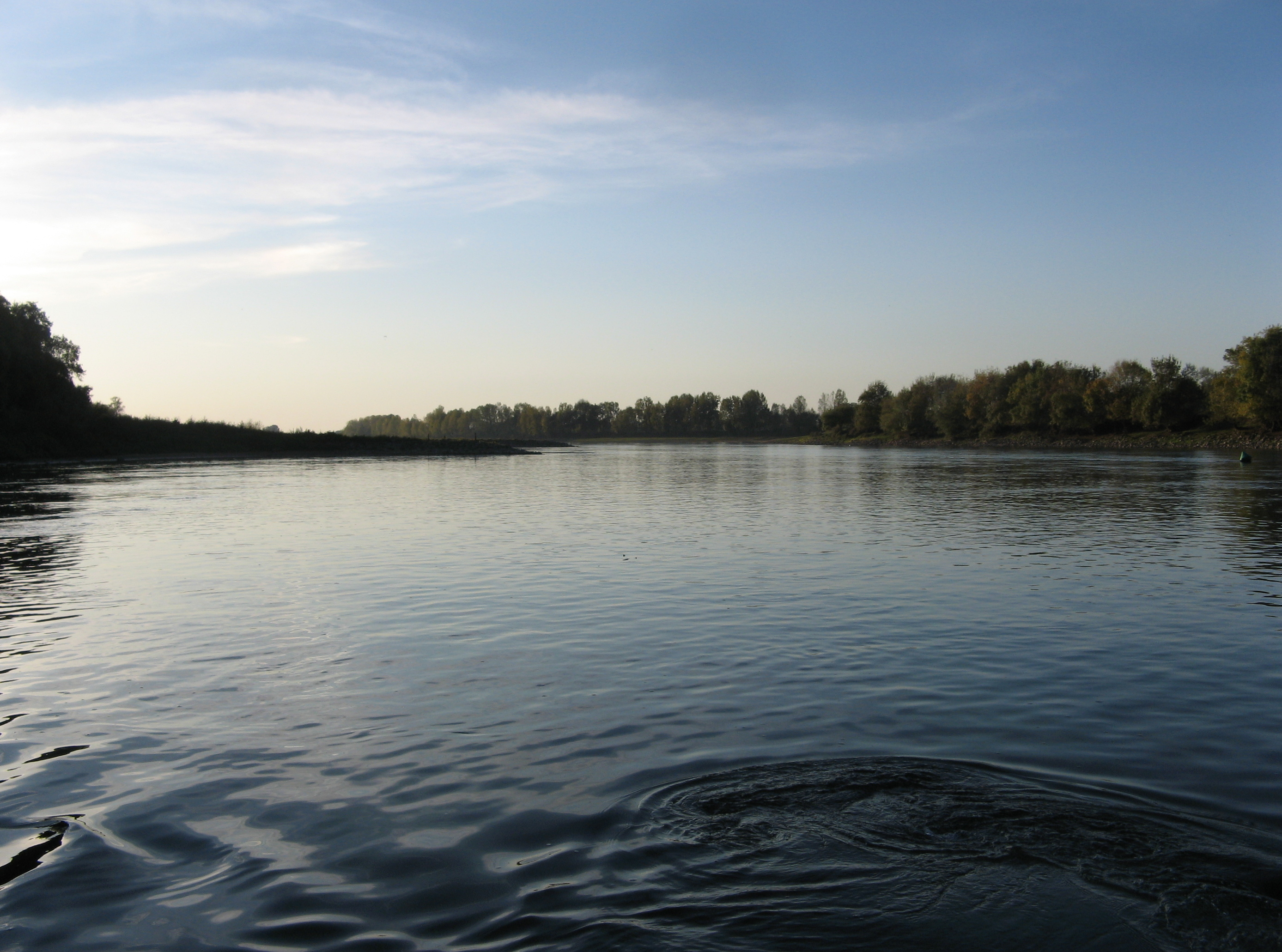 Loire river